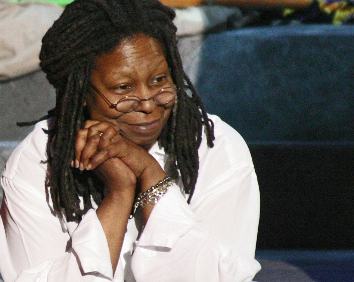 Whoopi Goldberg, during dress rehearsal at Comic Relief 2006, in Las Vegas, as photographed by Daniel Langer.